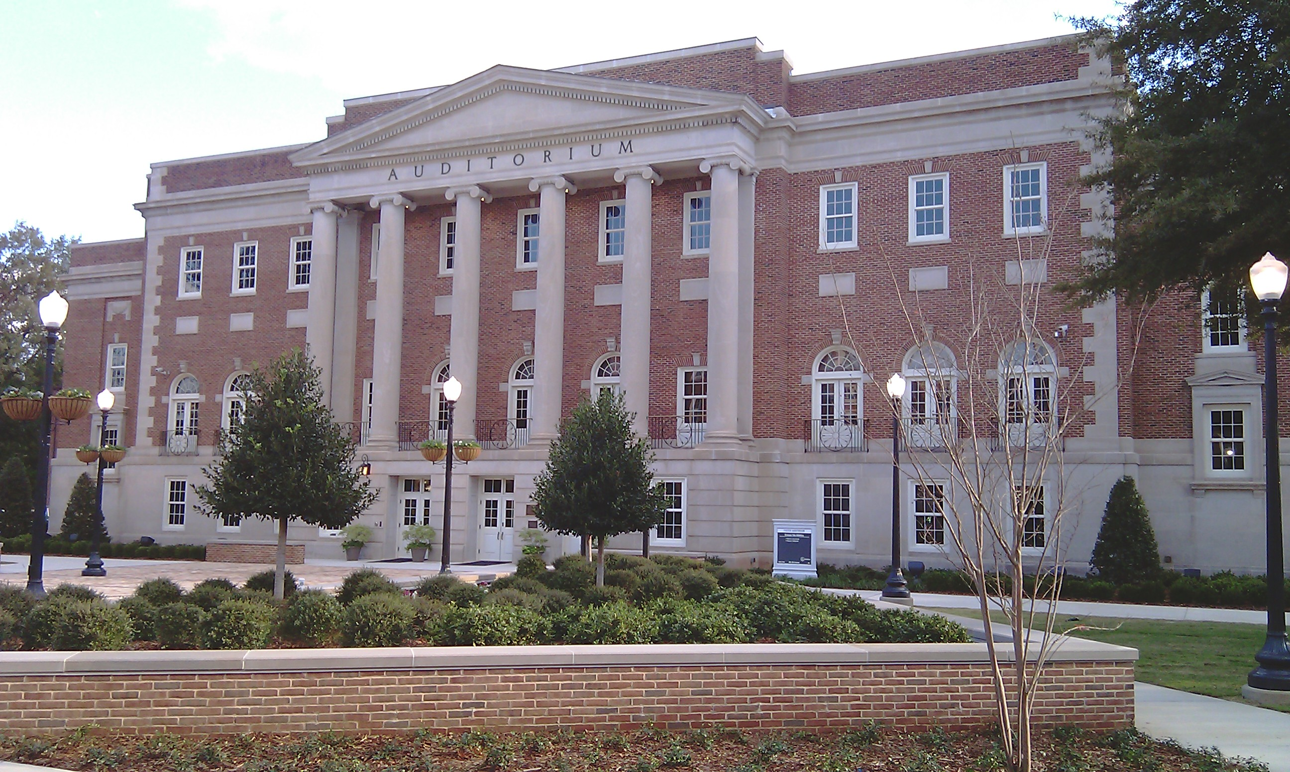 Foster Auditorium and Malone Hood Plaza on the campus of the University of Alabama in Tuscaloosa, Alabama. Taken from the northwestern corner of the plaza.